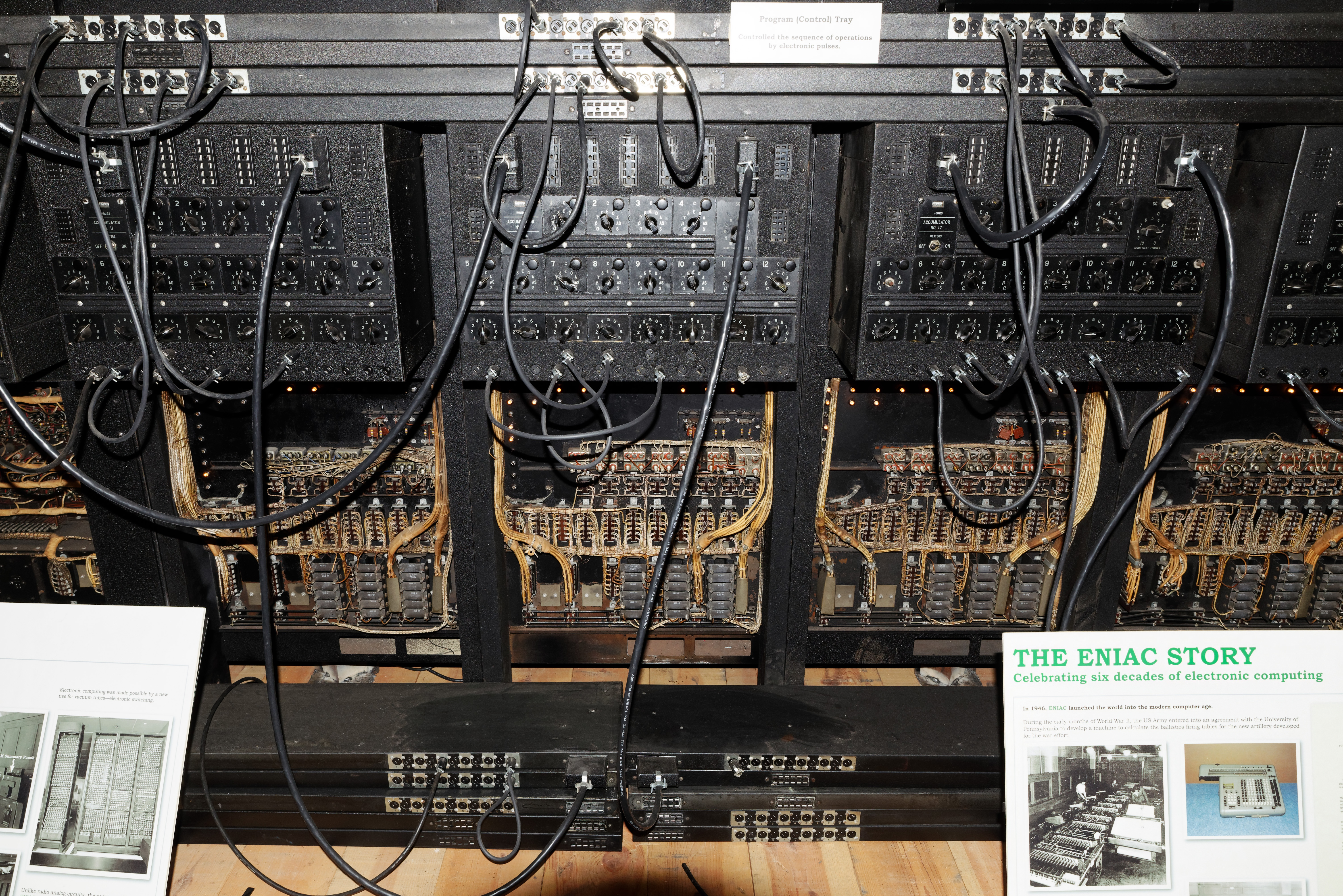 ENIAC computer on display at Fort Sill Museum, Lawton, Oklamoma, US